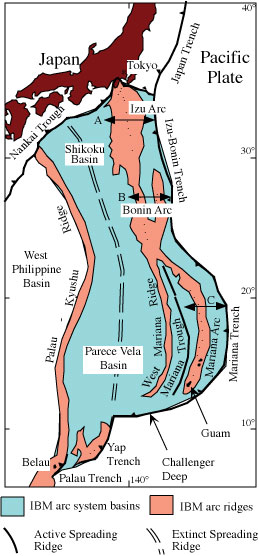 Locality of IBM arc system in Western Pacific